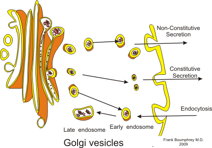 Golgi apparatus and secretory vesicles